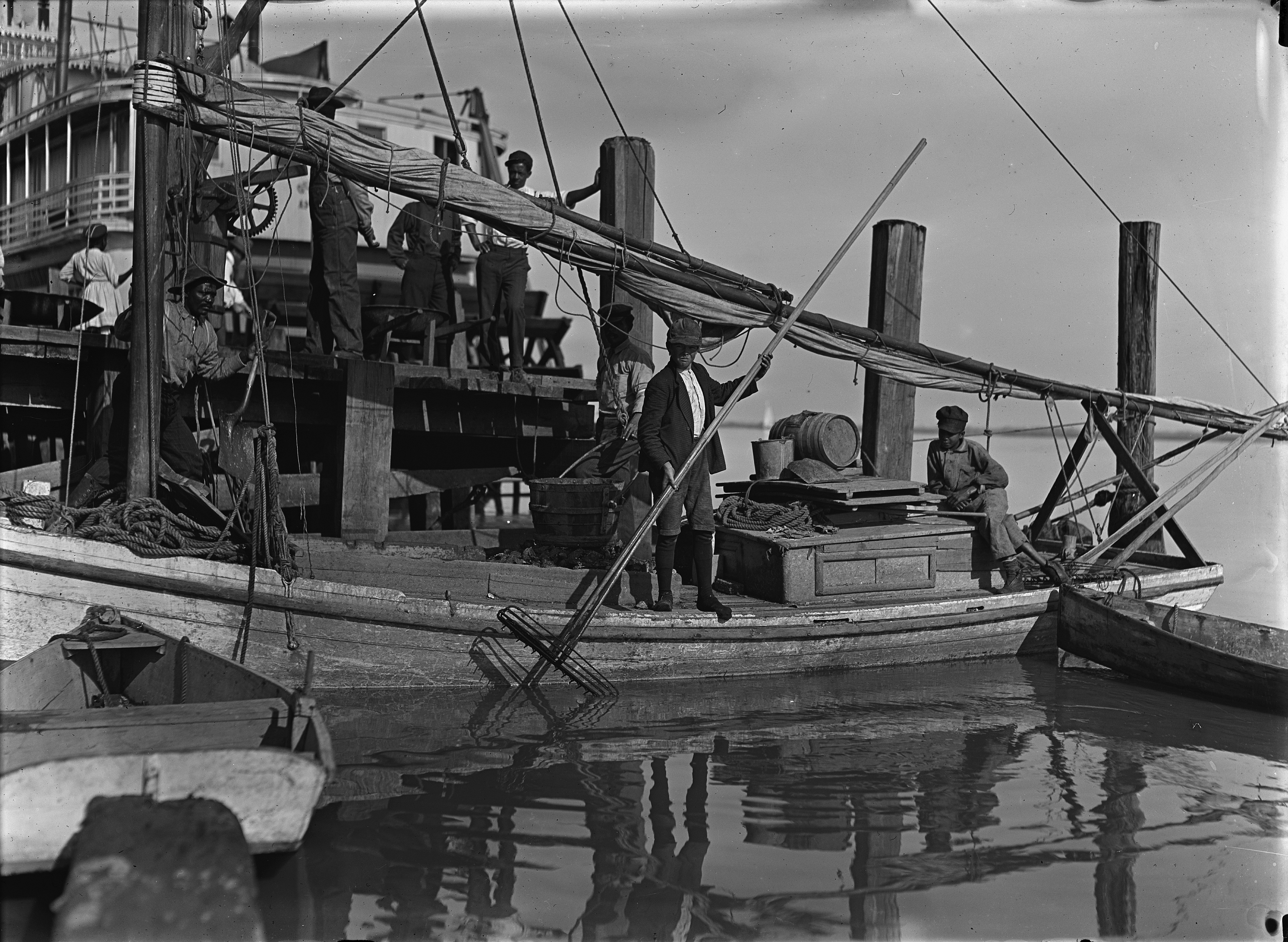 "A young oyster fisher [?] Others smaller employed in busy season. Apalachicola, Fla. Randsey Summerford says he starts out at 4 A.M. one day, is out all night in the little oyster boat and back next day some time. Gets a share of the proceeds. Said he was 16 years old and been at it 4 years. Lives in Georgia and is here 6 months a year. Location: Apalachicola, Florida."